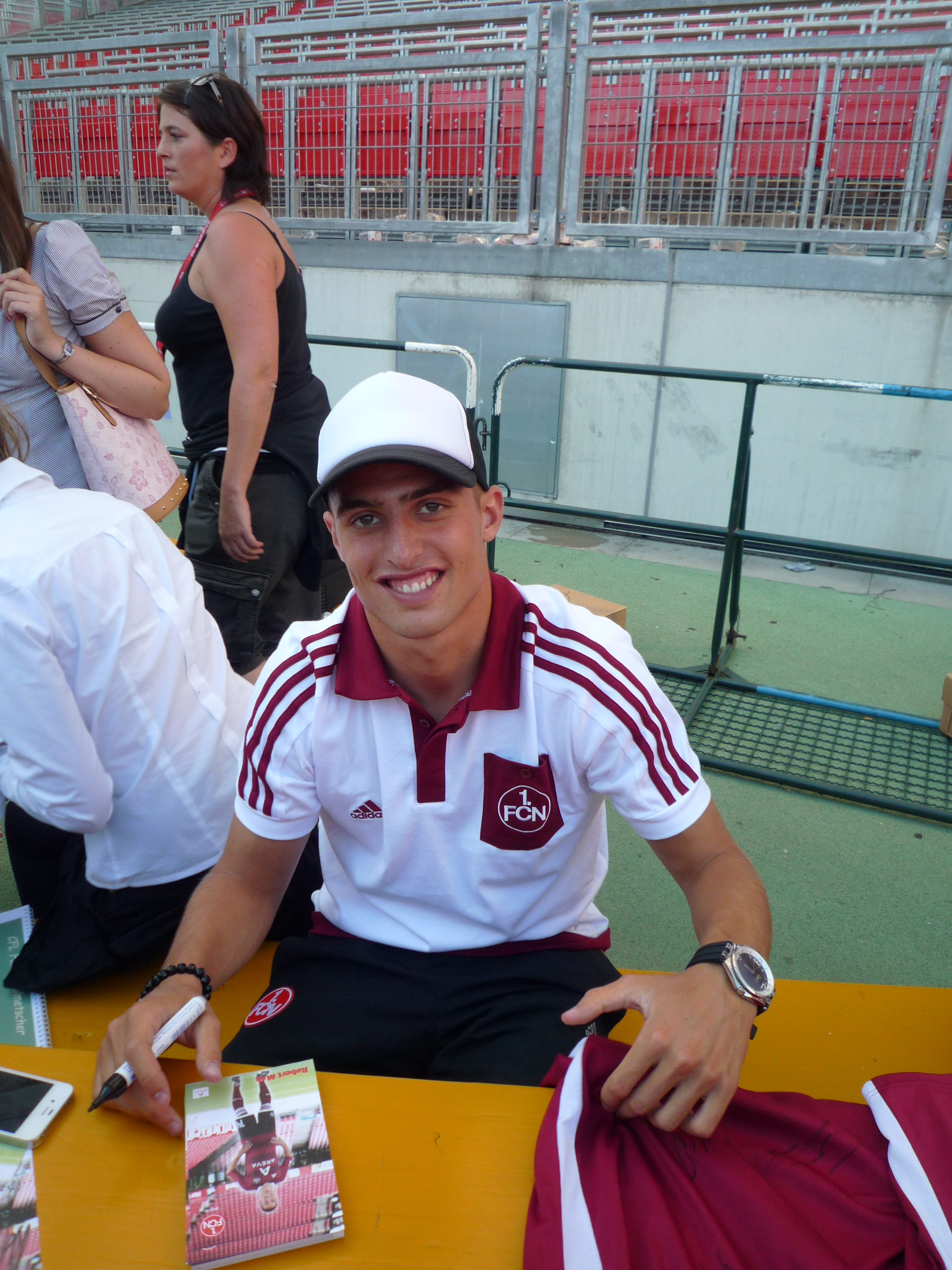 Robert Mak